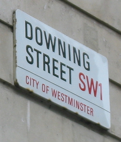 London